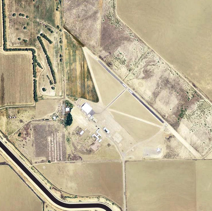 USGS digital orthophoto of Eagle Field, an airport in Fresno County, California, United States